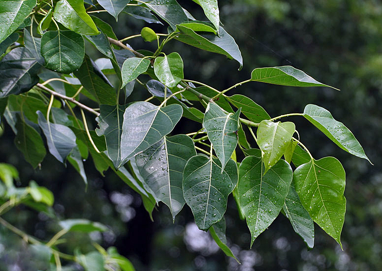 Pilkhan Ficus virens. Kolkata, West Bengal, India